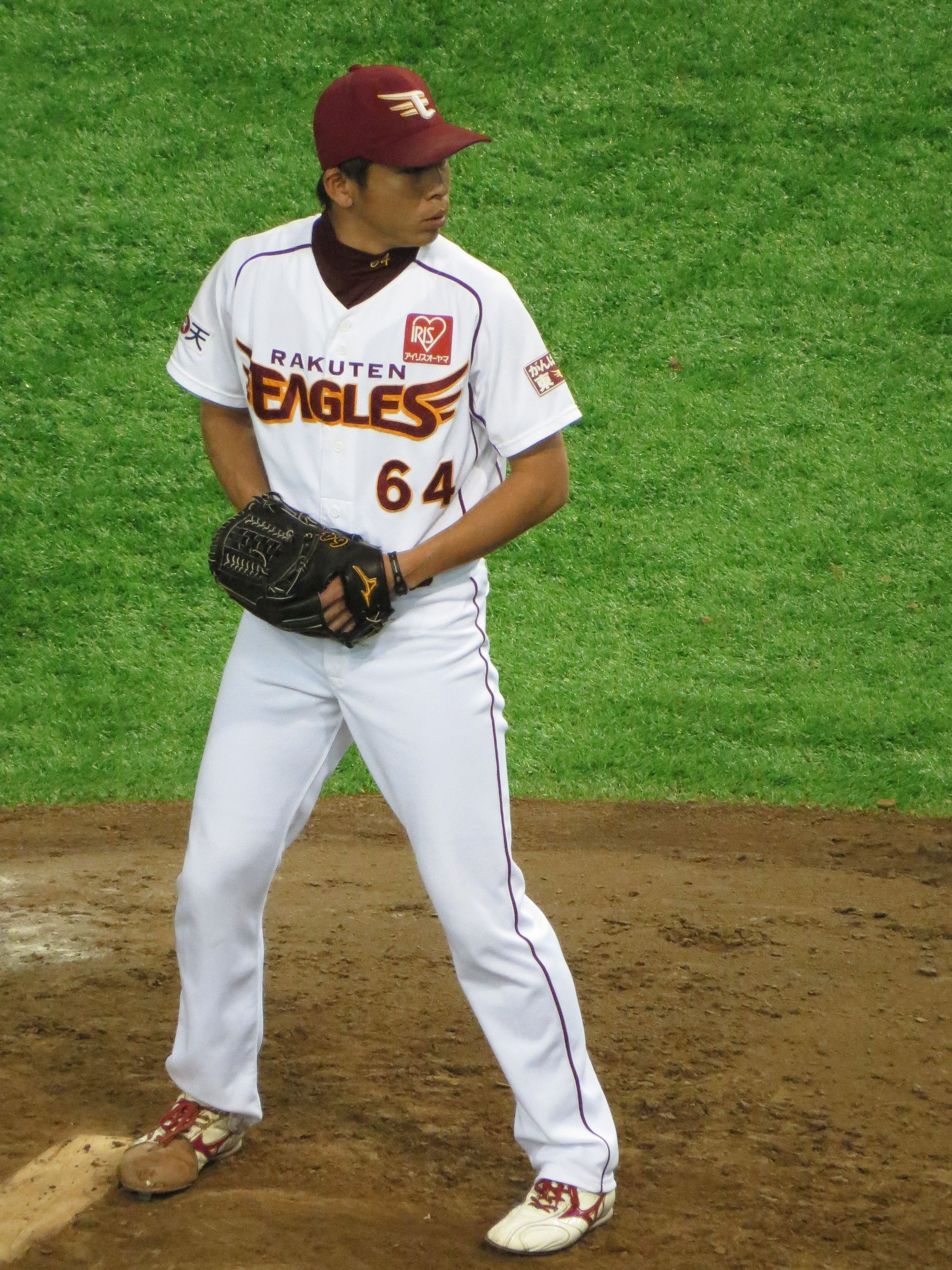 Hiroyuki Fukuyama, pitcher of the Tohoku Rakuten Golden Eagles, at Tokyo Dome.